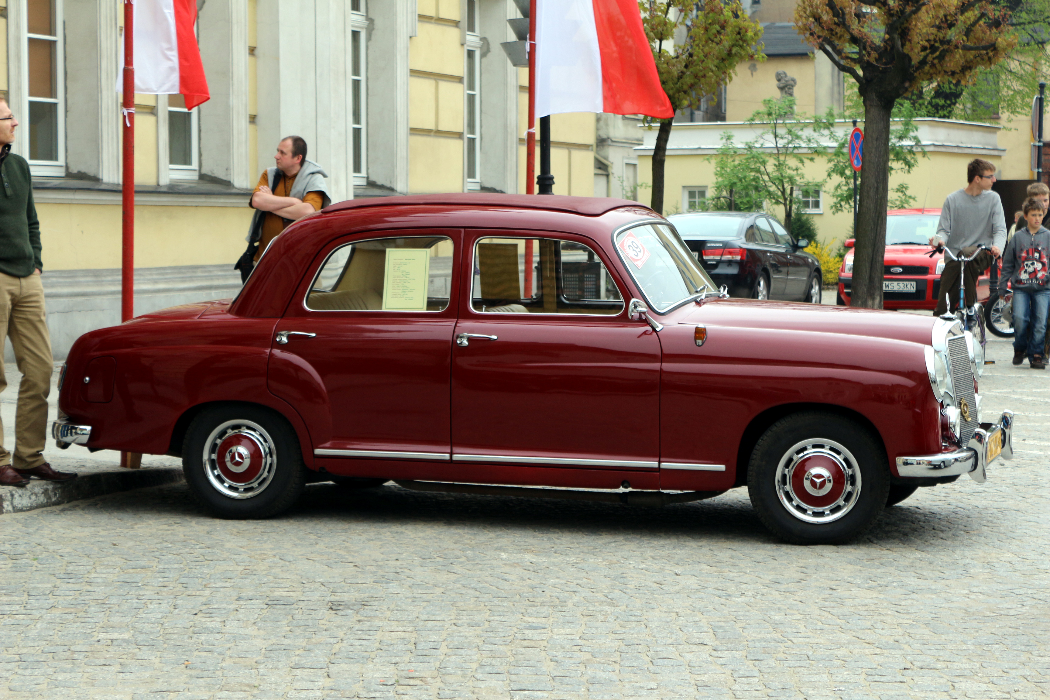 Mercedes Benz W120 180D 1954